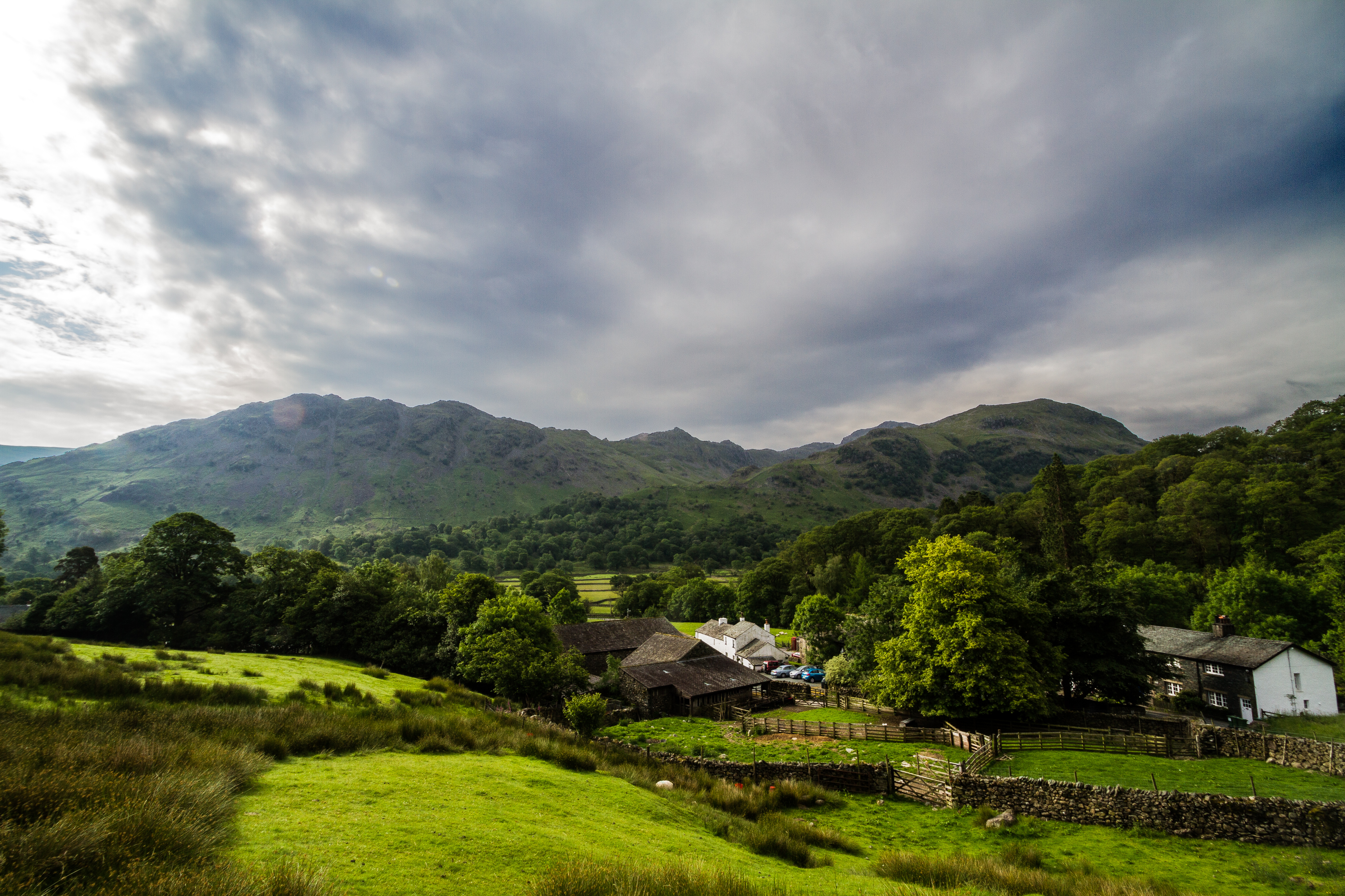 A photograph of the hamlet of Seatoller from above